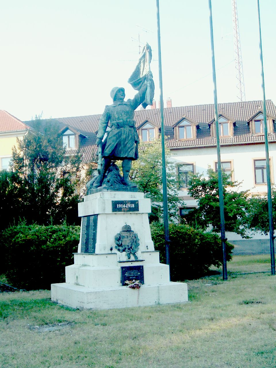 The Memorial of the 1st World War in Tapolca